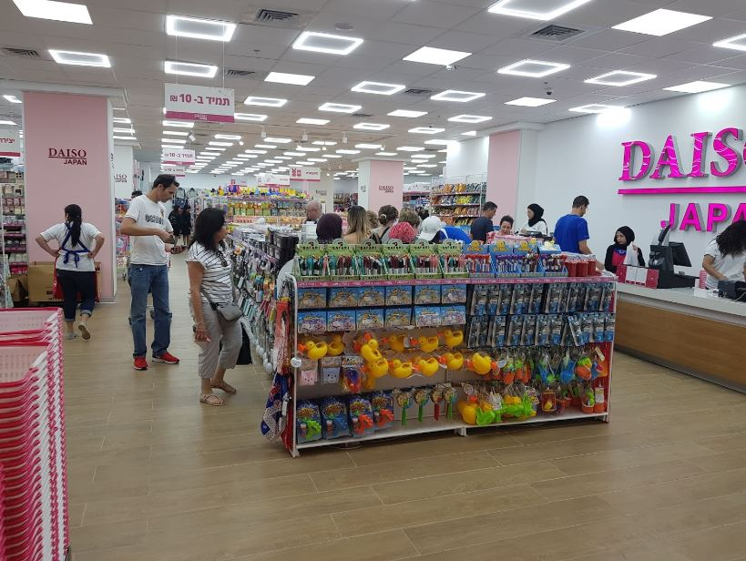 A branch of Daiso in Israel.